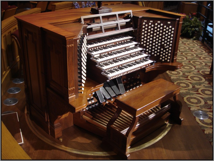 This huge organ console commands the 206r, 130s, 11623p organ.